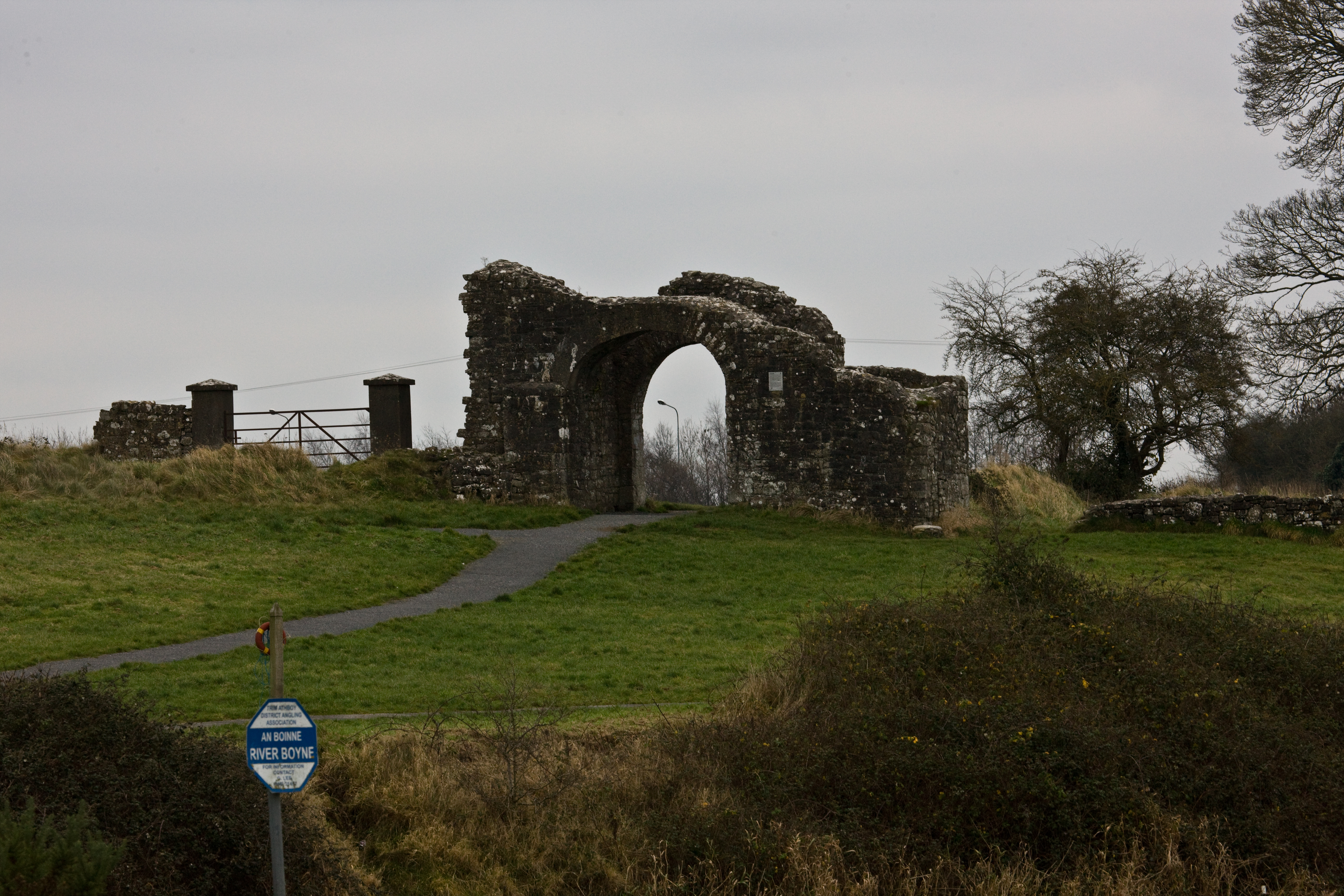 A little way south of the Yellow Steeple in Trim are the two-story ruins of Sheep Gate, the only surviving town gate in Trim.